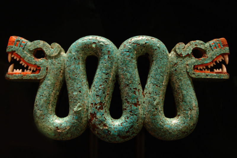 Two-headed turquoise serpent which was probably used as a chest ornament during ceremonial occasions. It is made of carved wood covered with turquioise, with red and white shell being used for the mouth and eyes. It was likely created in Mixtec areas under Aztec control between 1400 and 1521. (British Museum website, accessed September 15, 2006.)